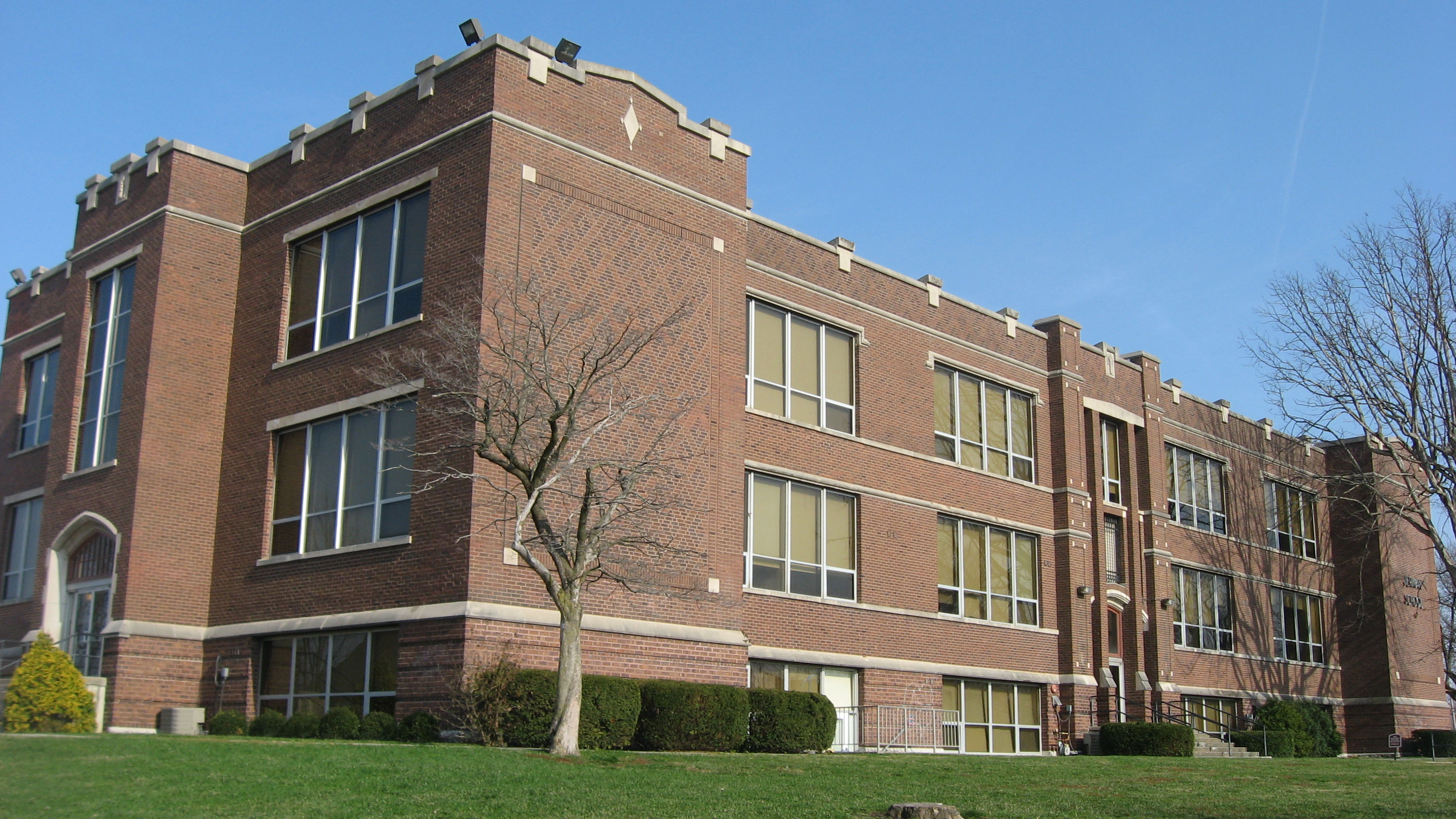 Front and western side of the Jerman School, located at 316 W. Walnut Street in Greensburg, Indiana, United States. Built in 1914 and since converted into senior-living apartments, it is listed on the National Register of Historic Places.